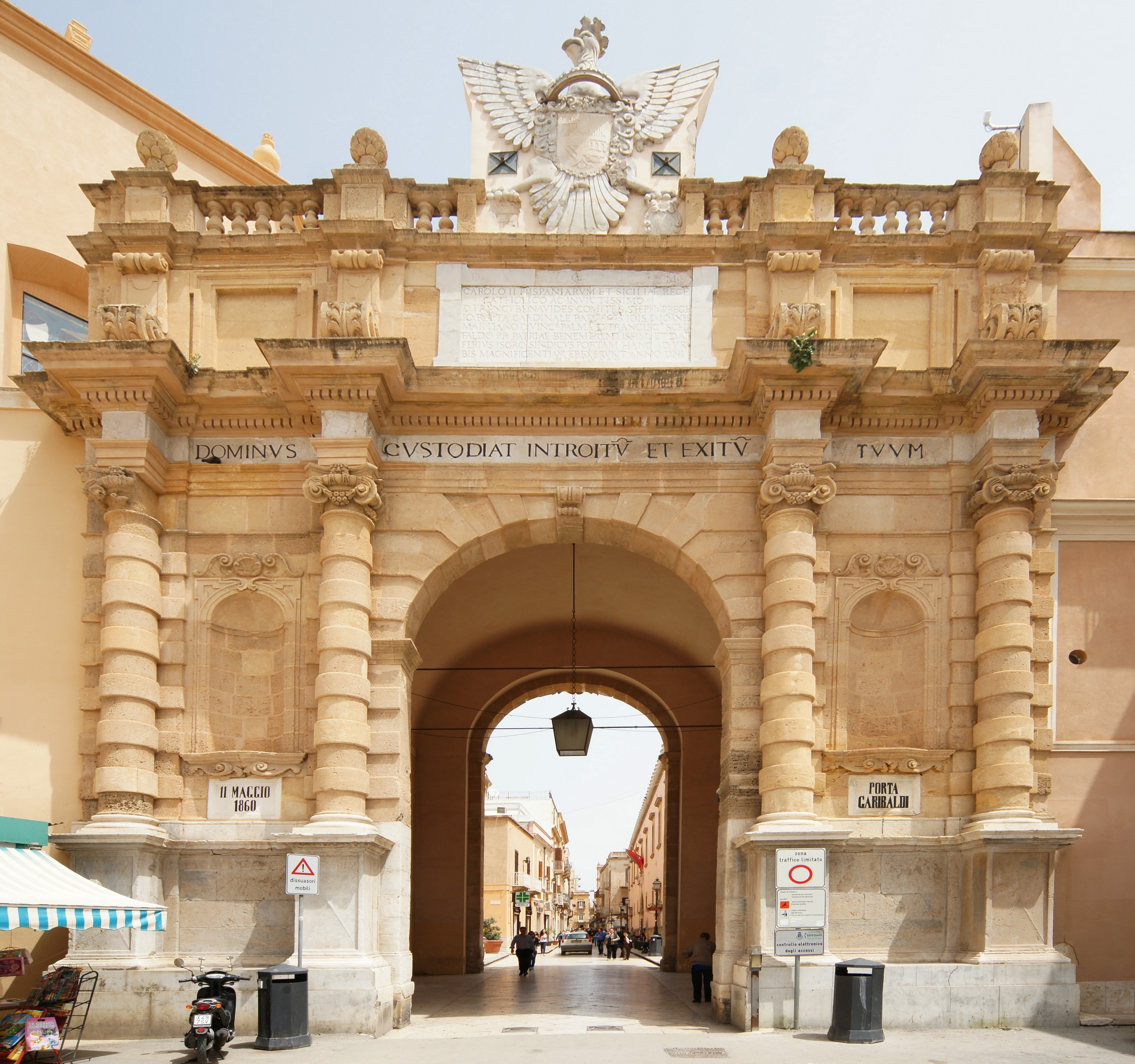 Marsala: Porta Garibaldi